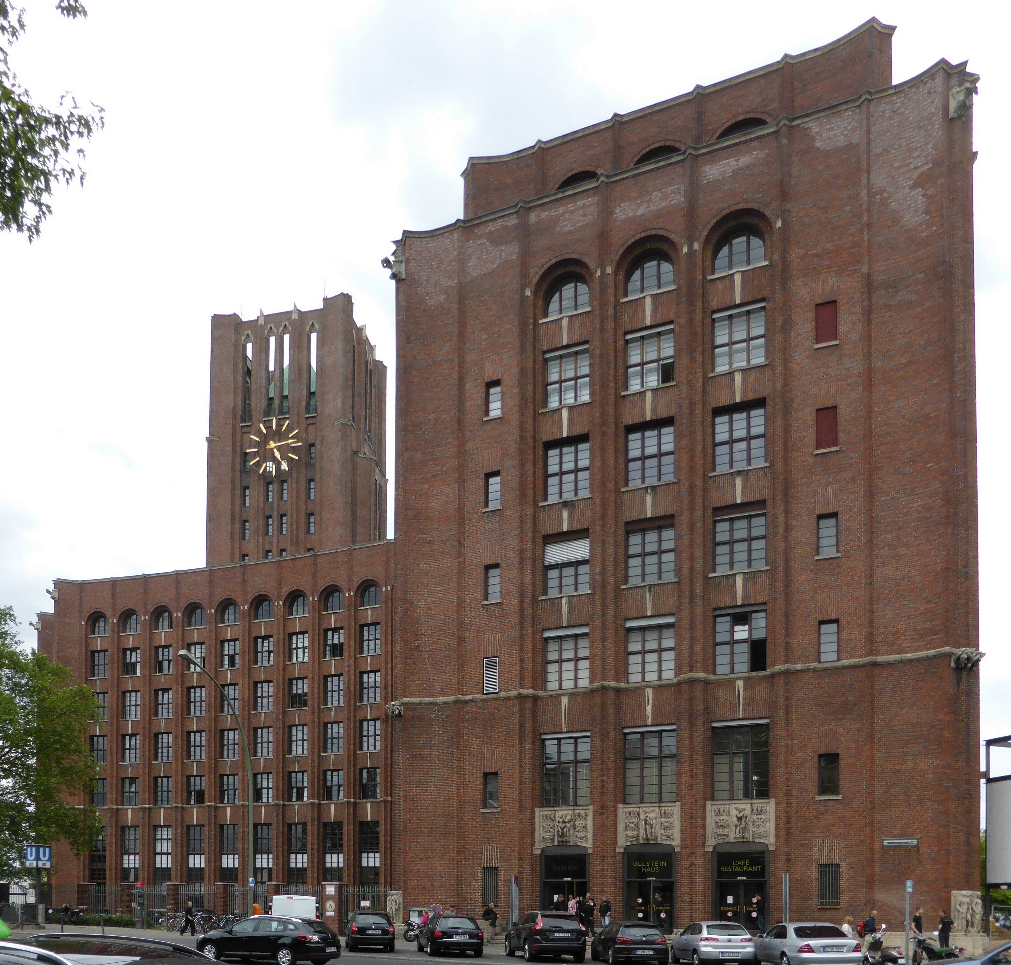 Berlin early summer